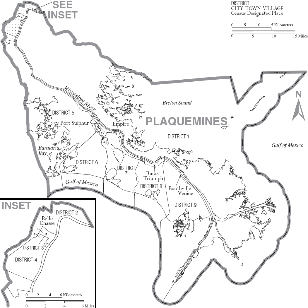 Map of Plaquemines Parish, Louisiana, United States with municipal and district boundaries